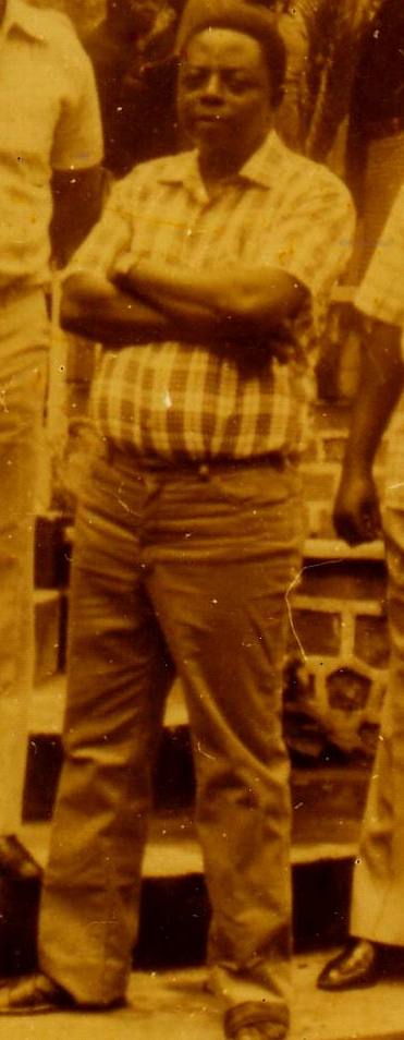 Joseph Ngalula while being detained by Mobutu's security forces